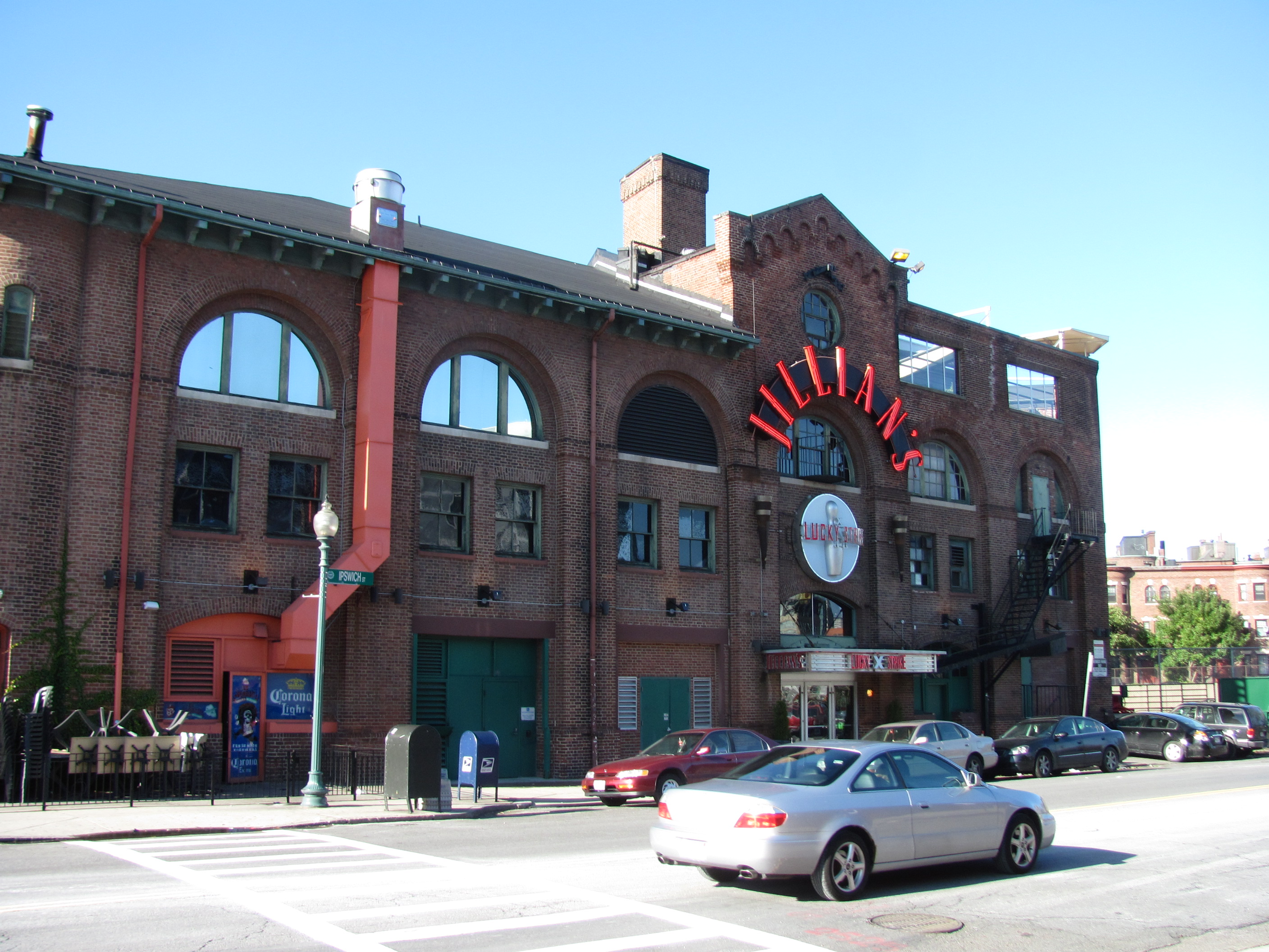 Jillian's, Boston Massachusetts